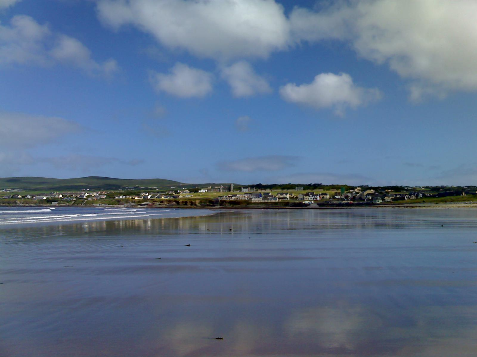 author source 13-JUL-06 Summary author source 13-JUL-06